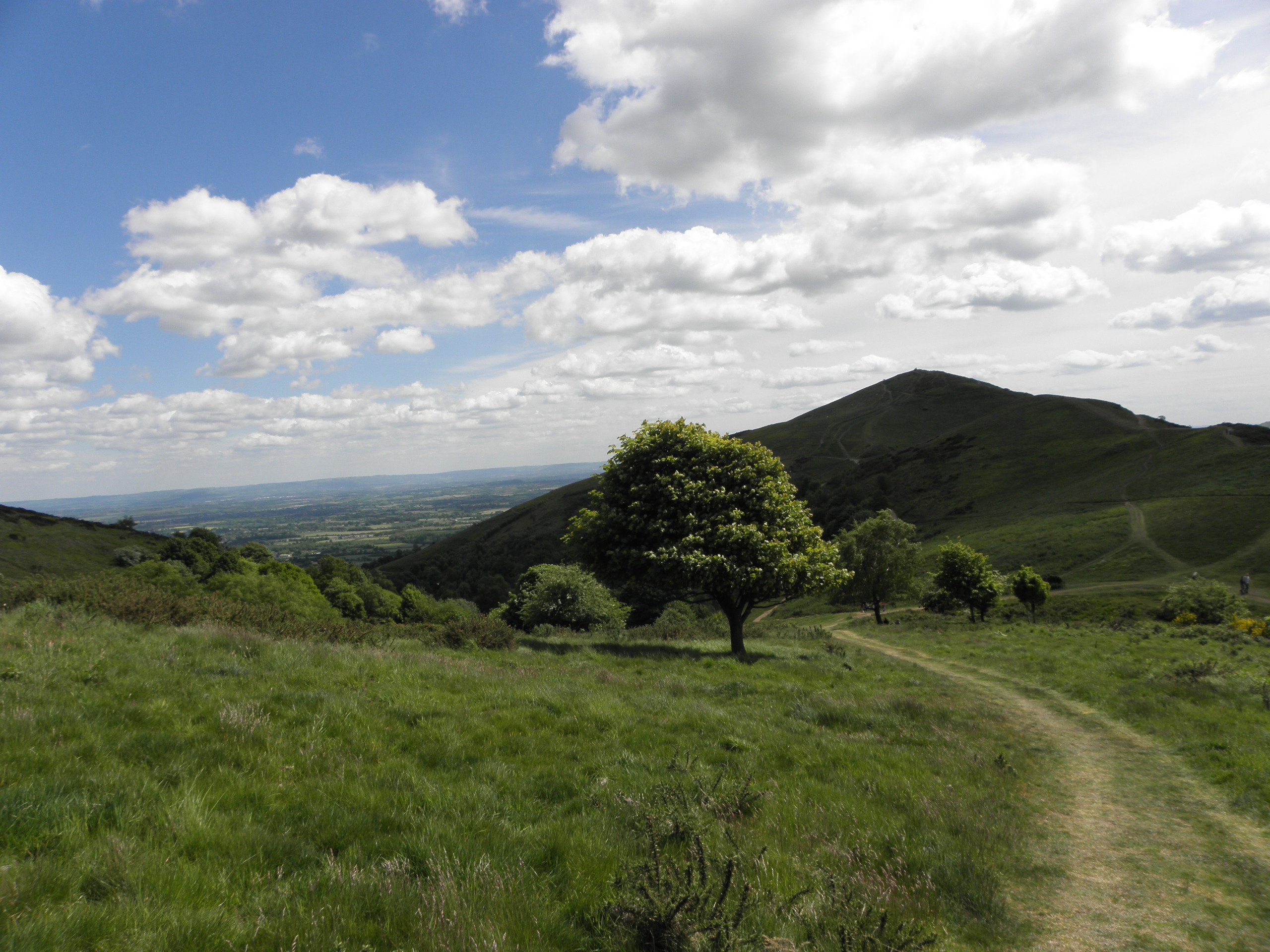 Malvern Hills in May